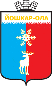 Yoshkar-Ola (Mariy-El), coat of arms (1968)